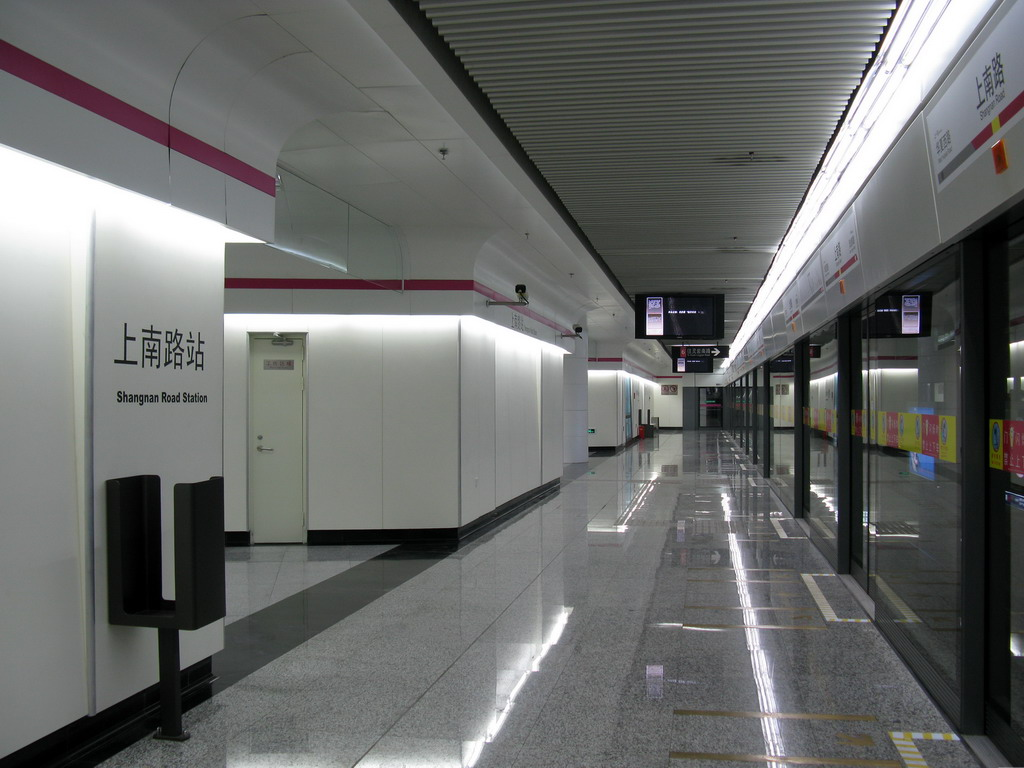 上南路站 6号线月台 Line 6 Platform of Shangnan Road Station